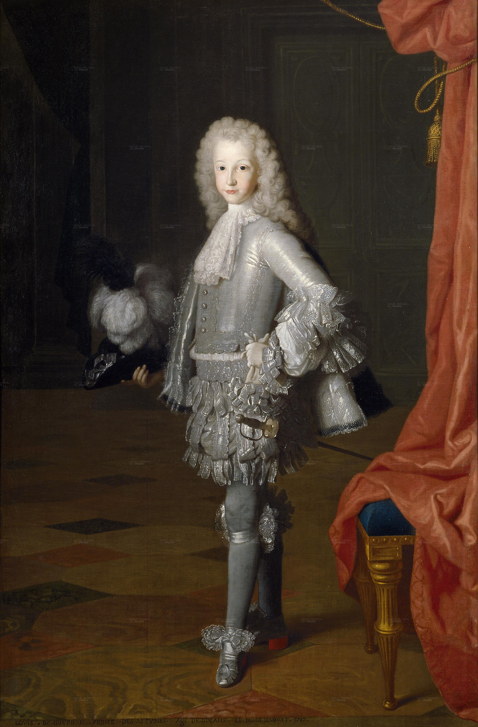 Louis I (Spanish: Luis I de Borbón, 25 August 1707 – 31 August 1724) was King of Spain from 14 January 1724 until his death. His reign is recorded as one of the shortest in history, as he was king for just over seven months. He was the eldest son of King Philip V of Spain by his first queen consort, Maria Luisa of Savoy.